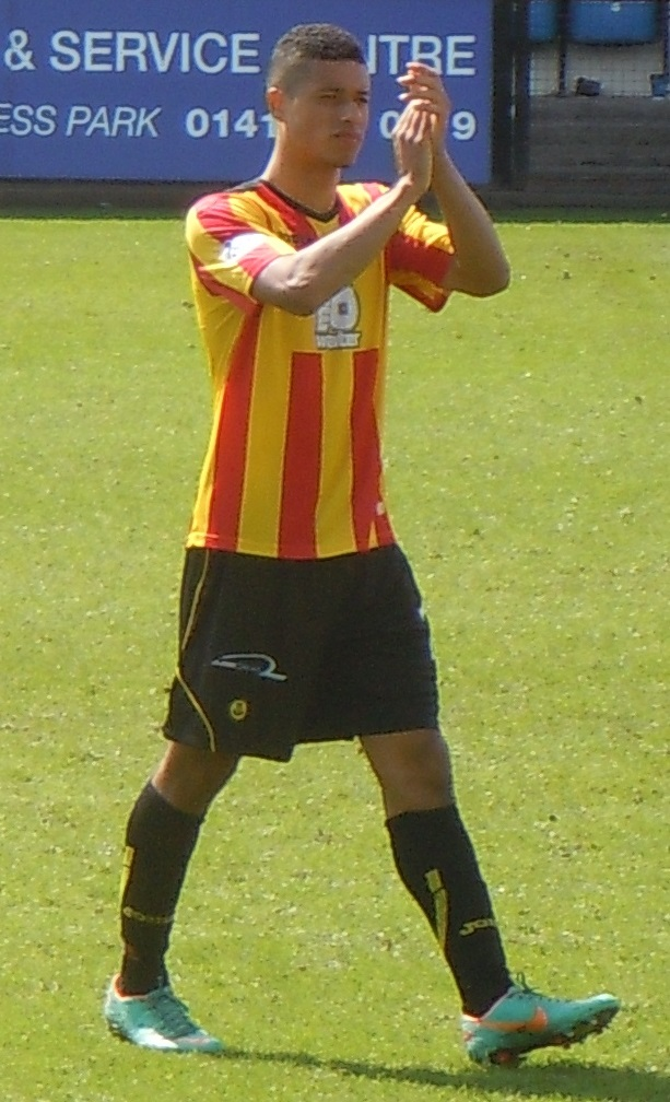 Lyle Taylor applauds the Thistle home support.